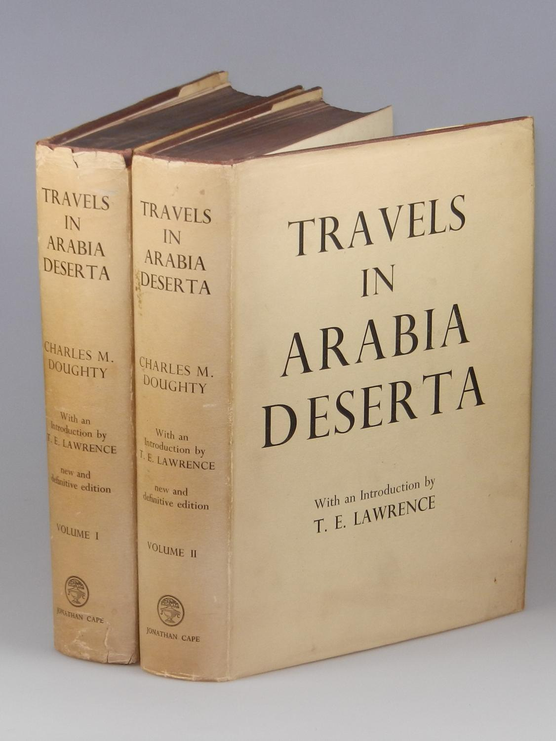 Travels in Arabia deserta